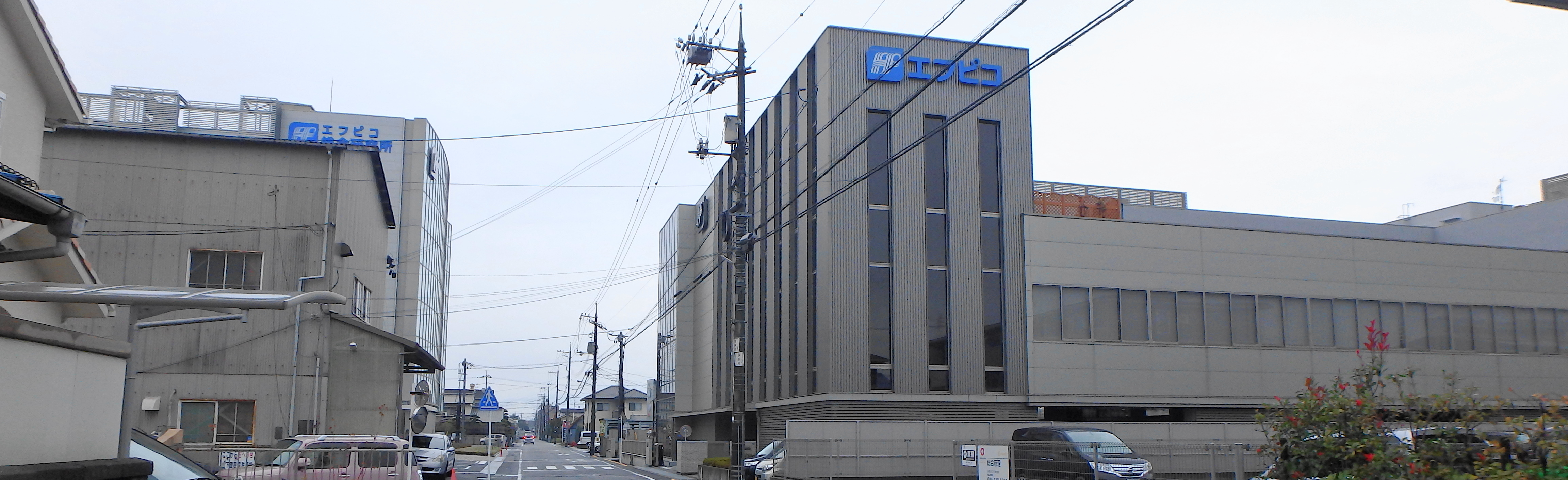 Headquarters of FP Corporation,Hiroshima prefecture,Japan